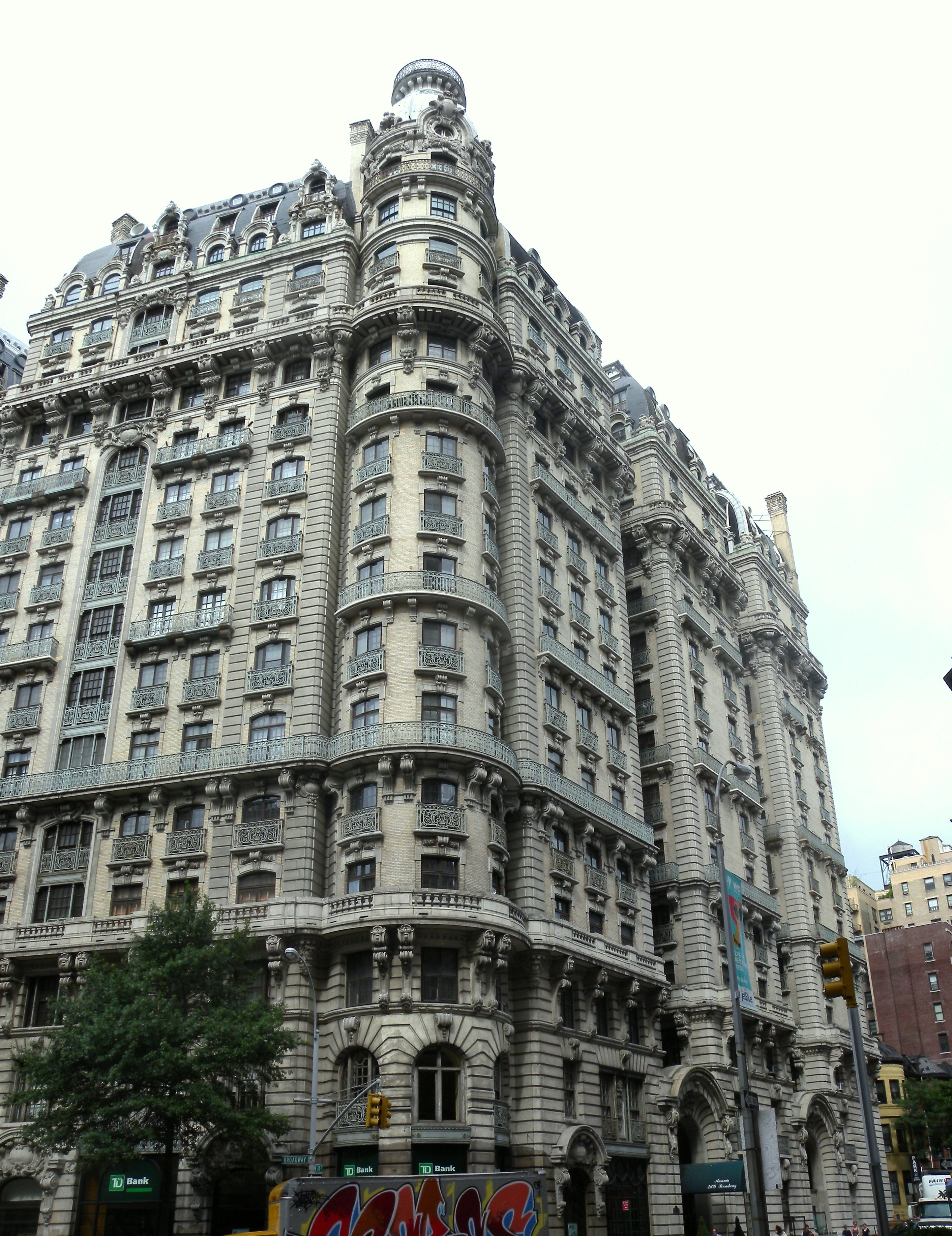 Looking west across Broadway at The Ansonia on cloudy day.